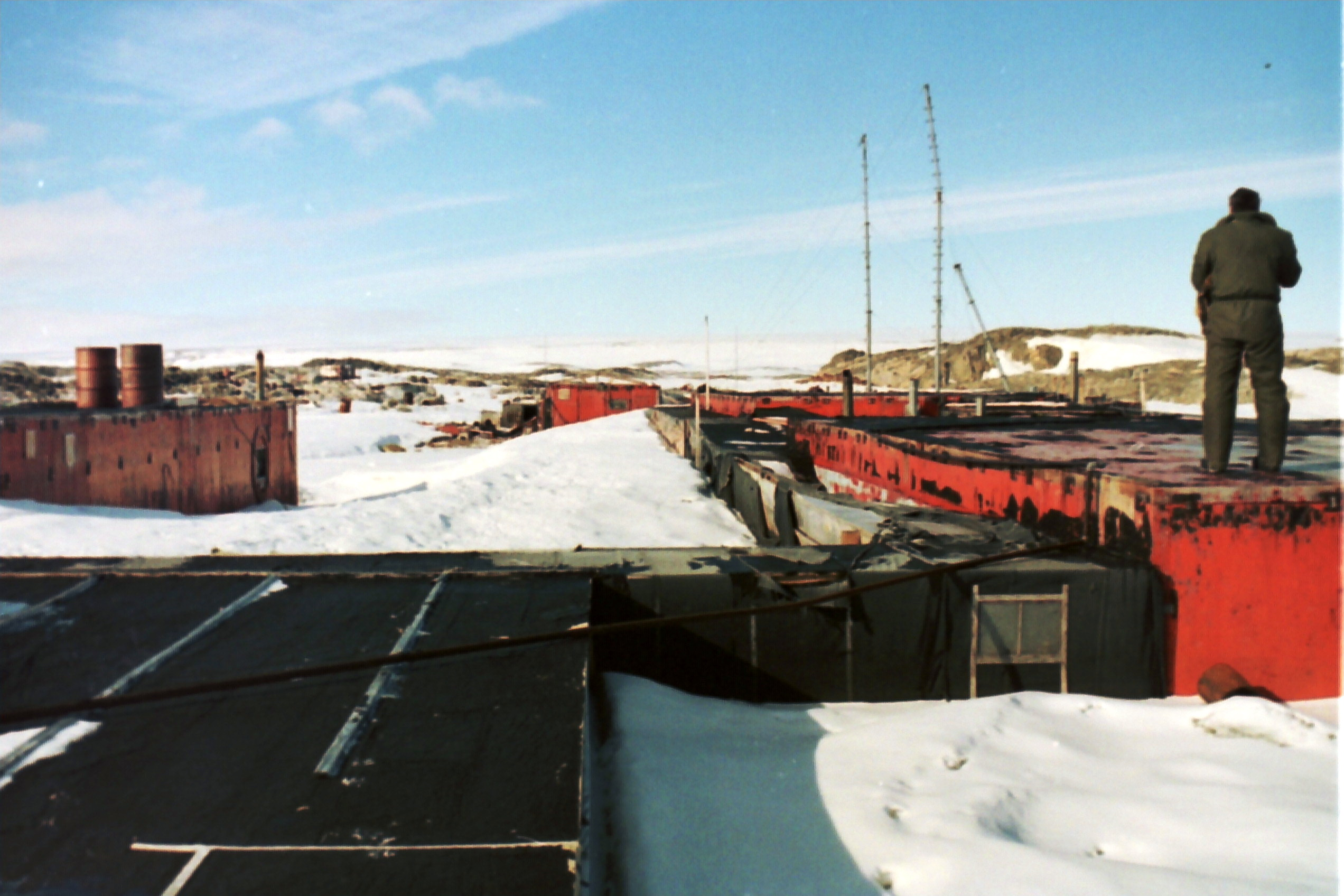 Photograph taken at Wilkes Station by Lieutenant Andrew Stanner, 17th Construction Squadron (Royal Australian Engineers) on Voyage 8 of the 1989/88 resupply season ANARE. Photograph shows the old abandoned buildings at Wilkes.